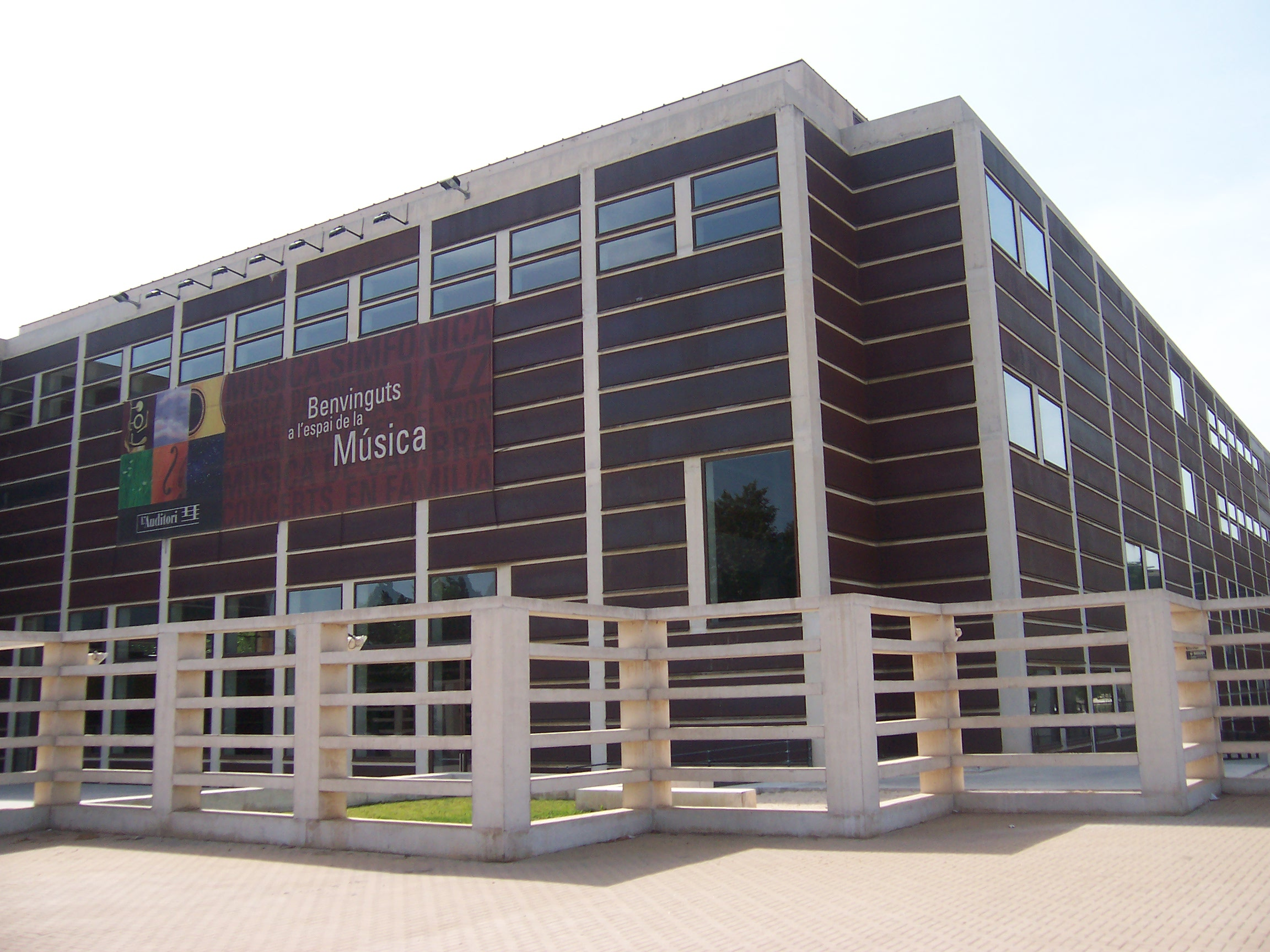 L'Auditori, in Barcelona.